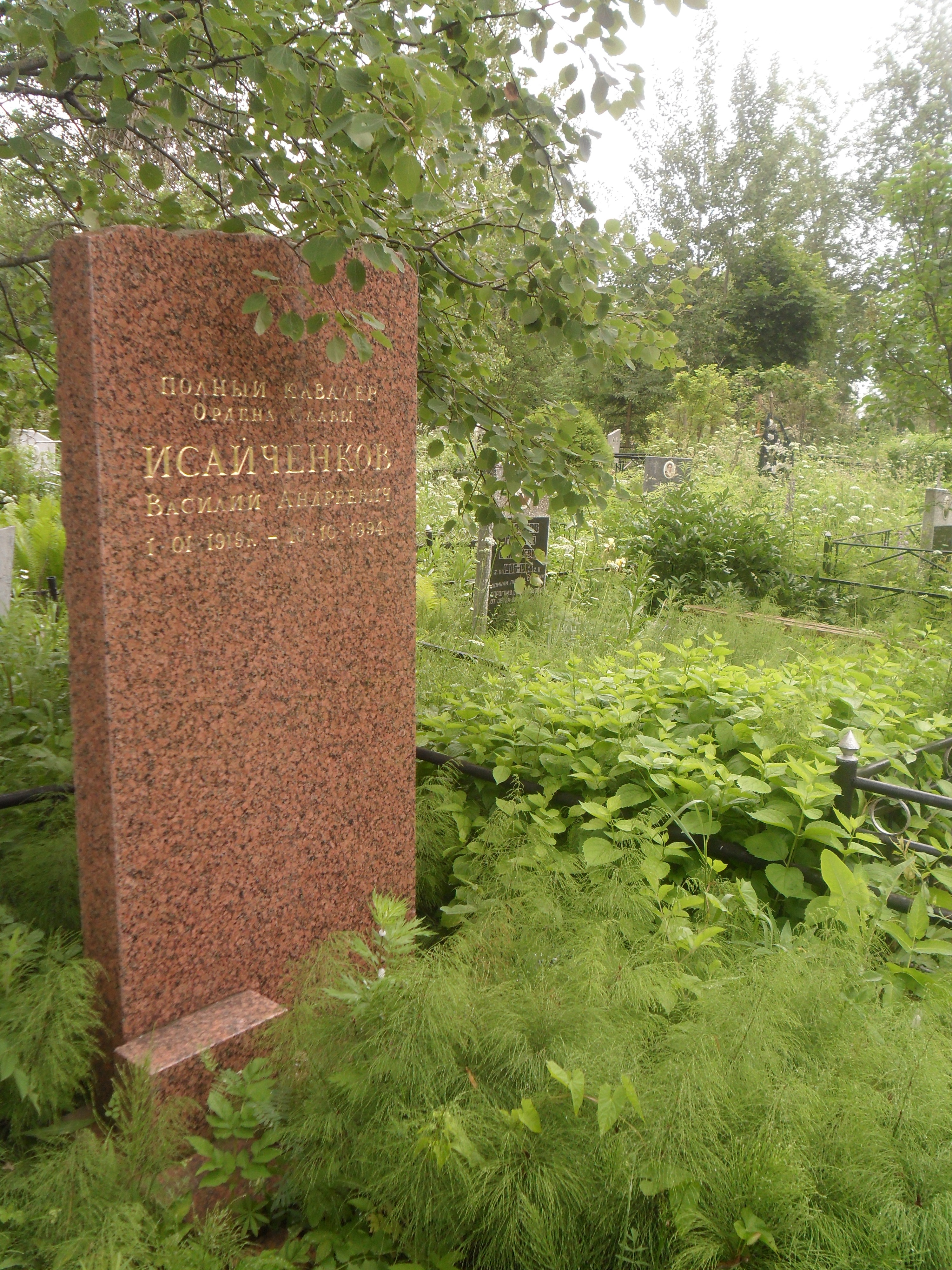 Tomb of the Chevalier of the Order of Glory full Isaychenkov Vasily the New Cemetery in Smolensk.